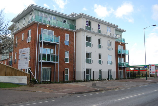 Housing Association development, St John's Rd